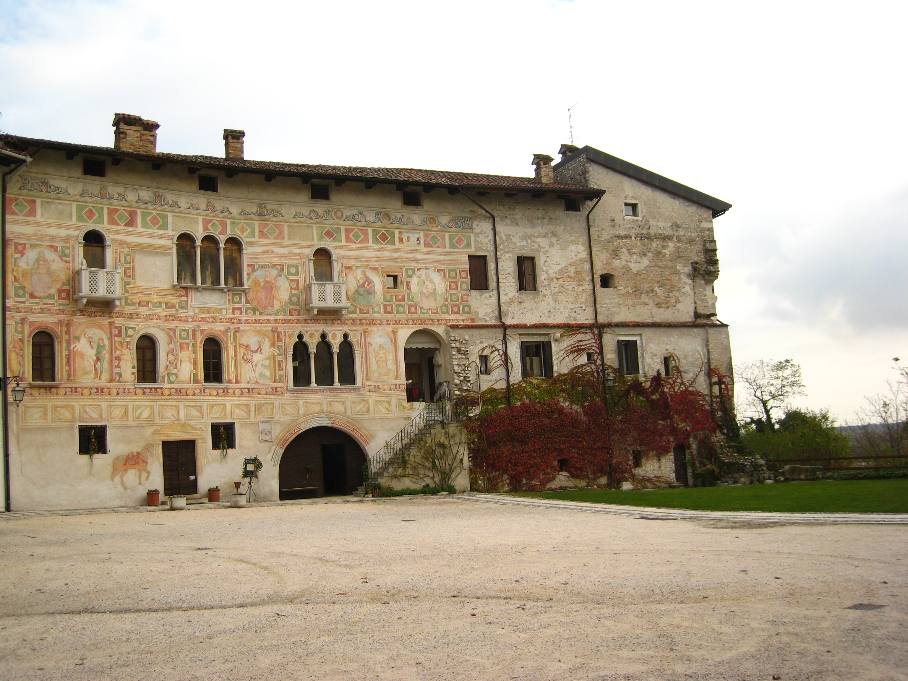 Italy - Spilimbergo (PN)- Castle